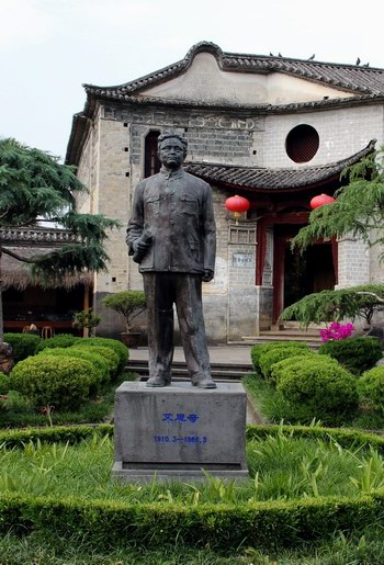 Statue of the philosopher and author Aisiqi in courtyard of his house in Heshun, Tengchong county western Yunnan, China.